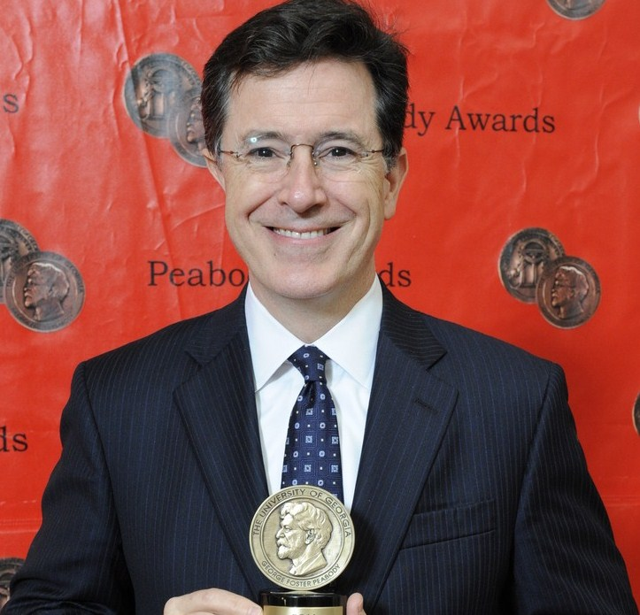 Colbert with his 2011 Peabody Award